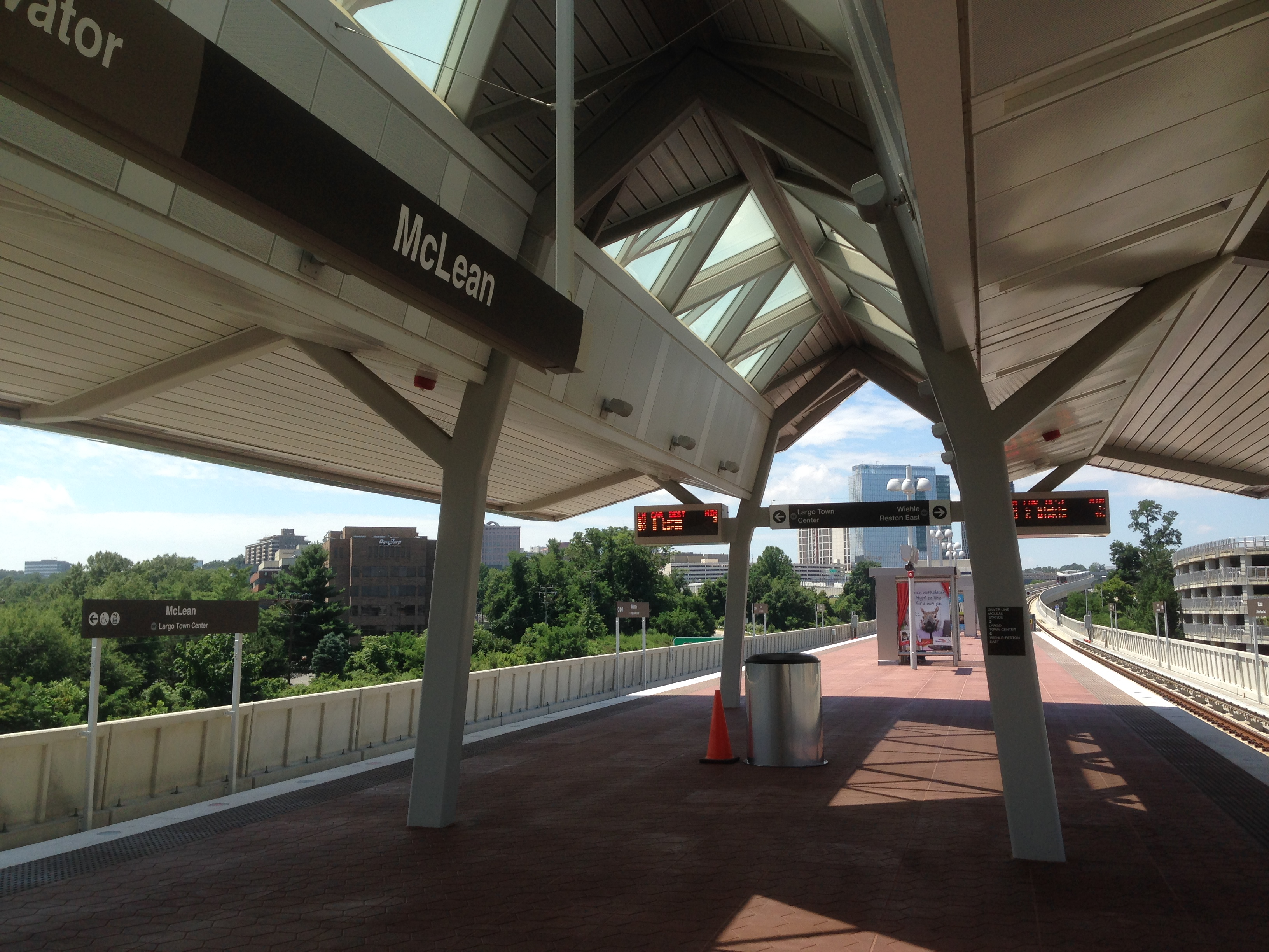 Platform of the McLean WMATA station on its first day of operation